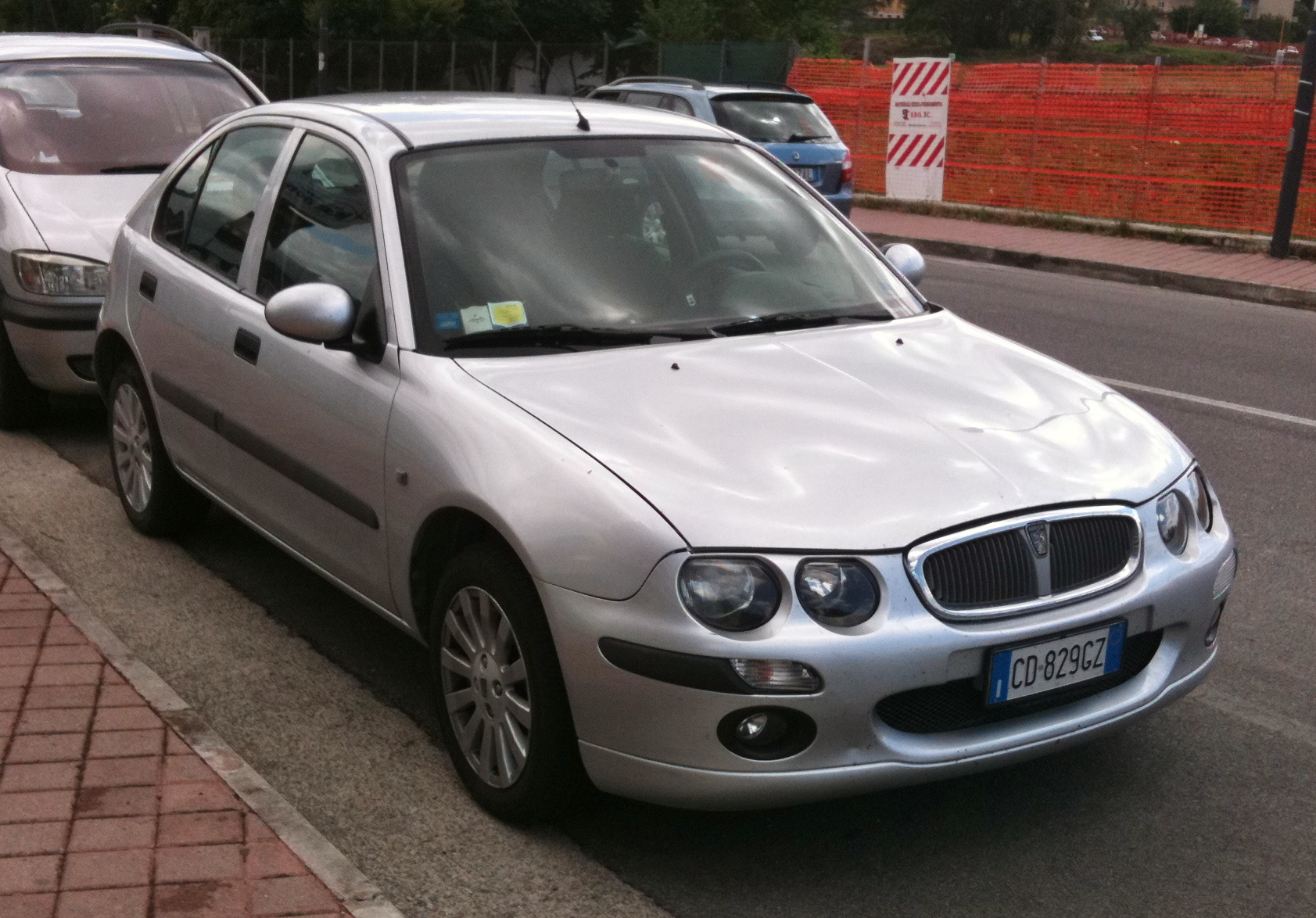 Rover 25 5-door front in Avellino